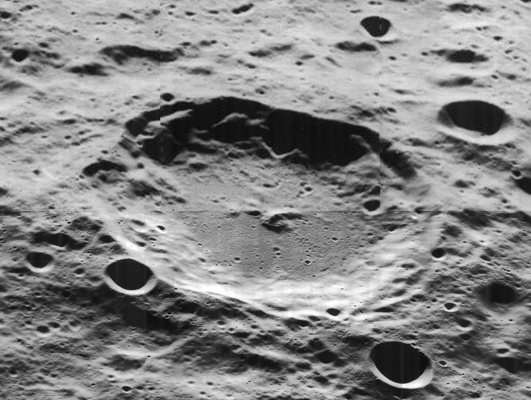 Oblique view of Bridgman crater, on the far side of the moon, facing west. This is a mosaic of high-resolution (lower half) and low-resolution (upper half) images.